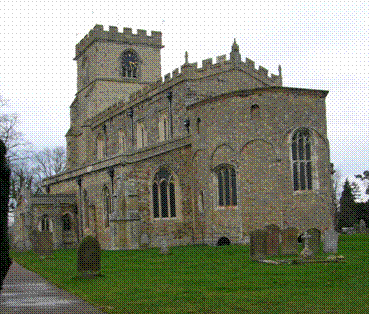 All Saints Church, Wing, England. Photographed by uploader who releases into public domain